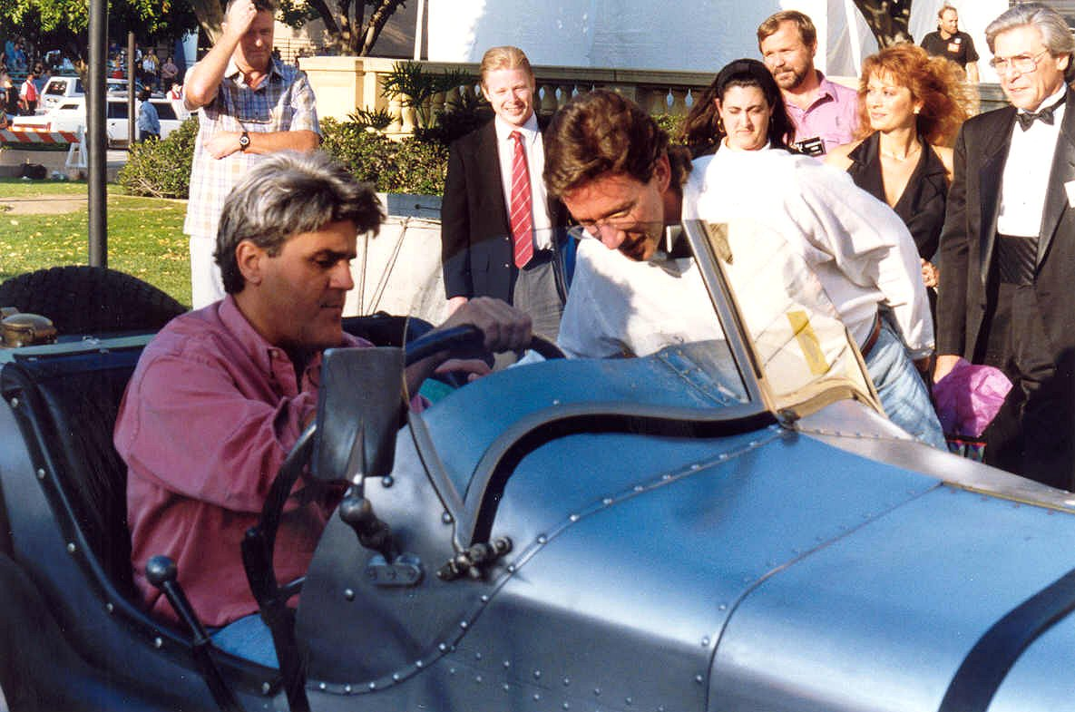 Jay Leno with Tim Allen, Photo taken at the 45th Emmy Awards 9/19/93